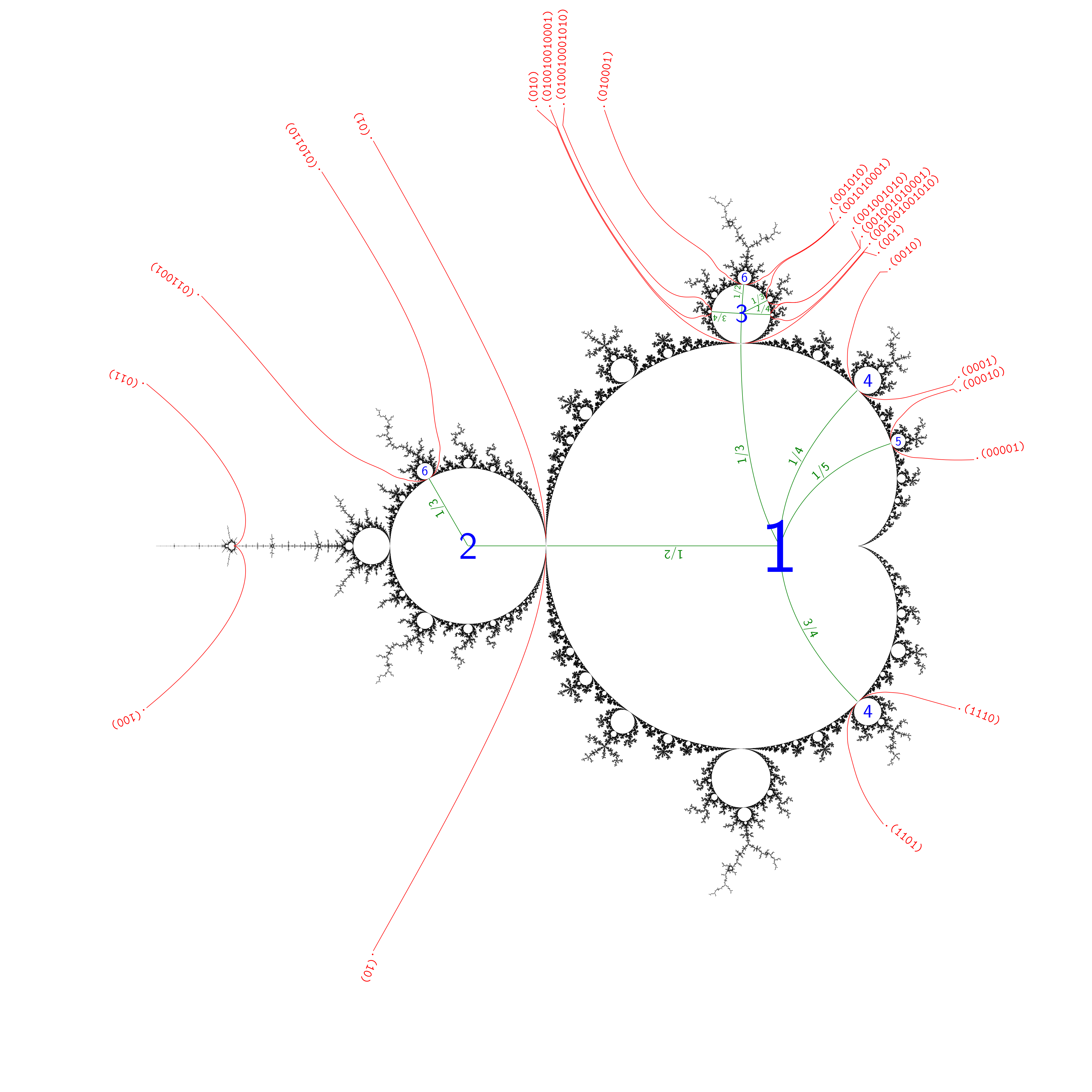 Wakes near the period 1 continent in the Mandelbrot set. Boundary of the Mandelbrot set rendered with distance estimation (exterior and interior). Labelled with periods (blue), internal angles and rays (green) and external angles and rays (red).